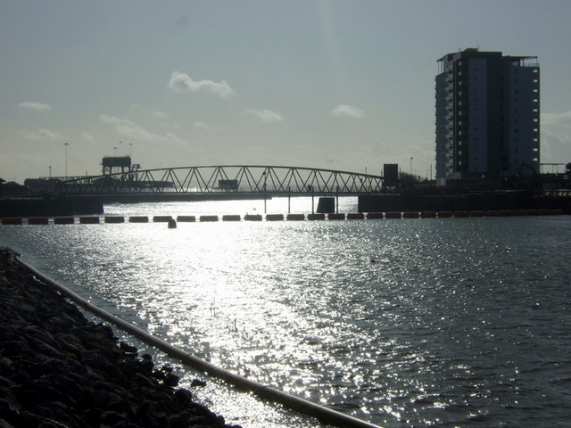 The lock bridge and the Tawe It overlooks the weir at the mouth of the Afon Tawe and links the marina with the new SA1 development, the lock itself being on the right in this southerly view.